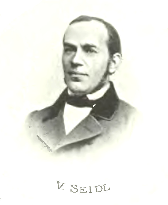 Portrait of Václav Seidl (1823-1903), Czech politician